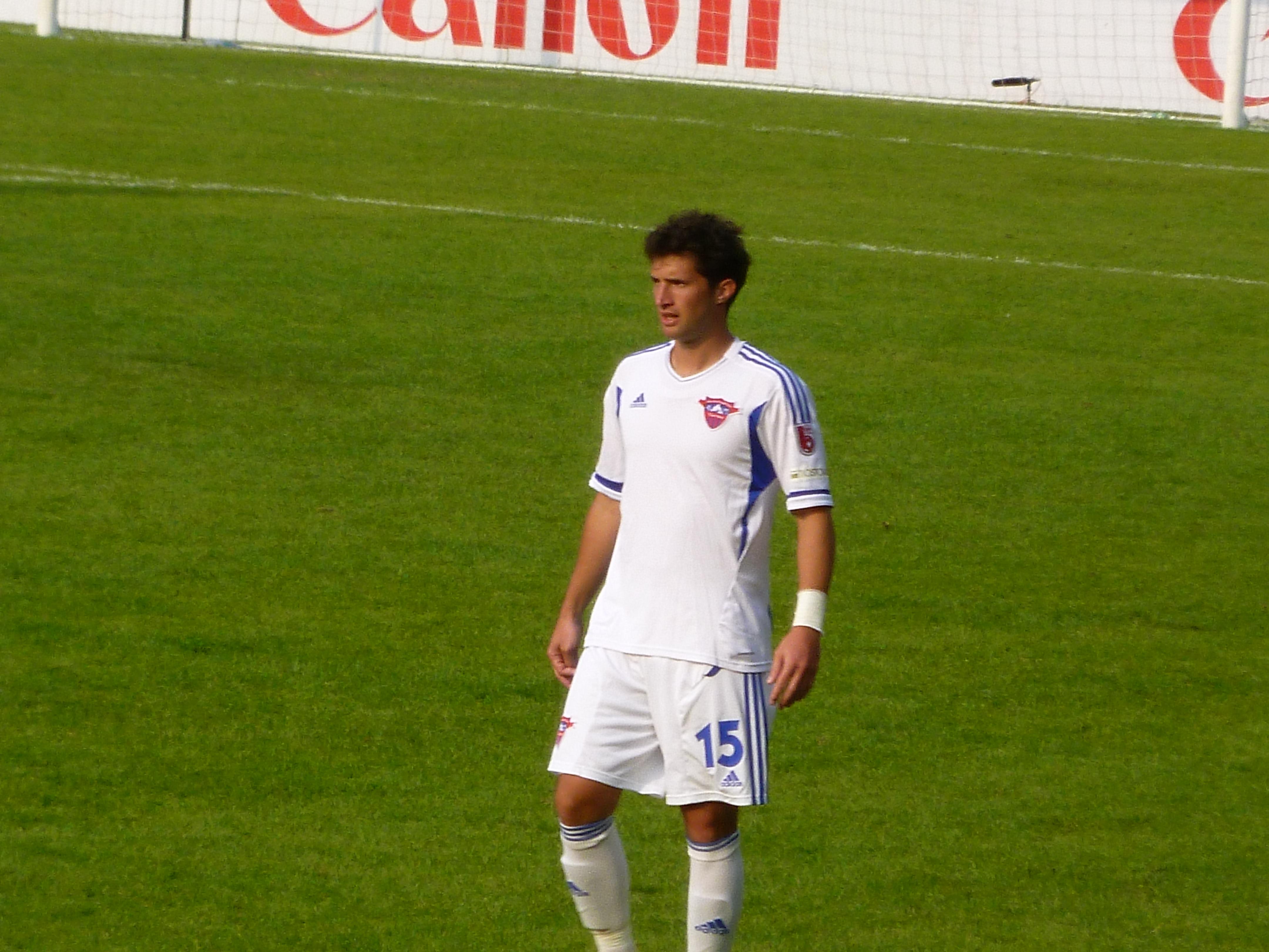 Roberto Fronza (Beto) (25 Mar 2012 Hong Kong FA Cup, Hong Kong Sapling vs Tuen Mun, Mong Kok Stadium)